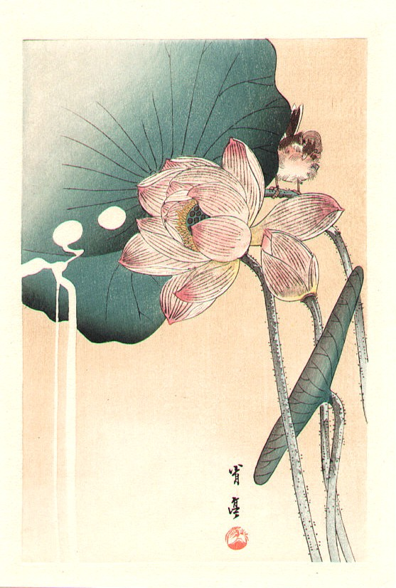 "Bijutsu Sekai" (The World of Art). Picture album series compiled by Seitei WATANABE introducing the works of well known artists in Meiji era such as Eisen, Taki Katei and Seitei himself. The series also includes the designs by Edo old masters. These designs were transferred to woodblock prints mostly from paintings. The series of 25 volumes was published during 1890-94. Small songbird peeks out from a large lotus leaf and flower. The design was apparently "borrowed" from Koson, made by one of artists associated with Shima Art Co. Shima Art Company's round seal under the artist's signature.